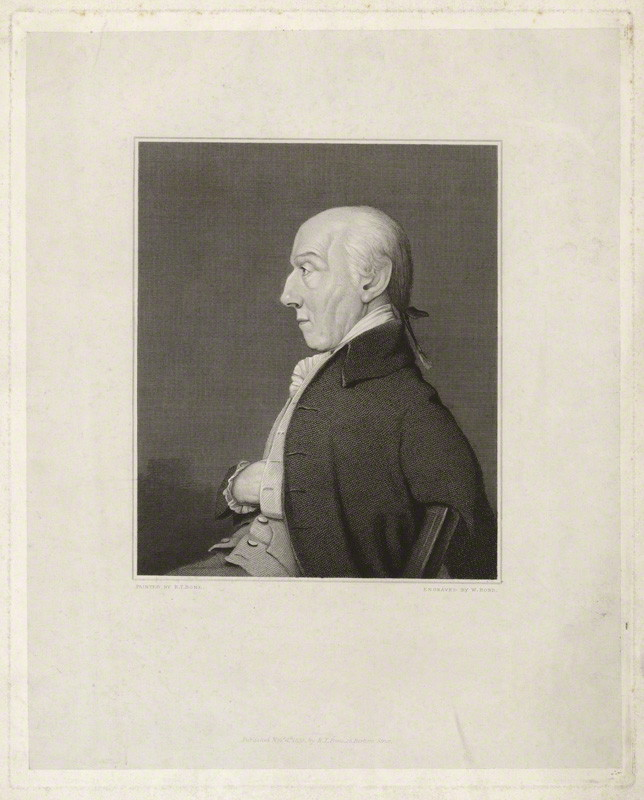 Stipple and line engraving of Thomas Villiers, 2nd Earl of Clarendon by William Bond, published by and after Robert Trewick Bone